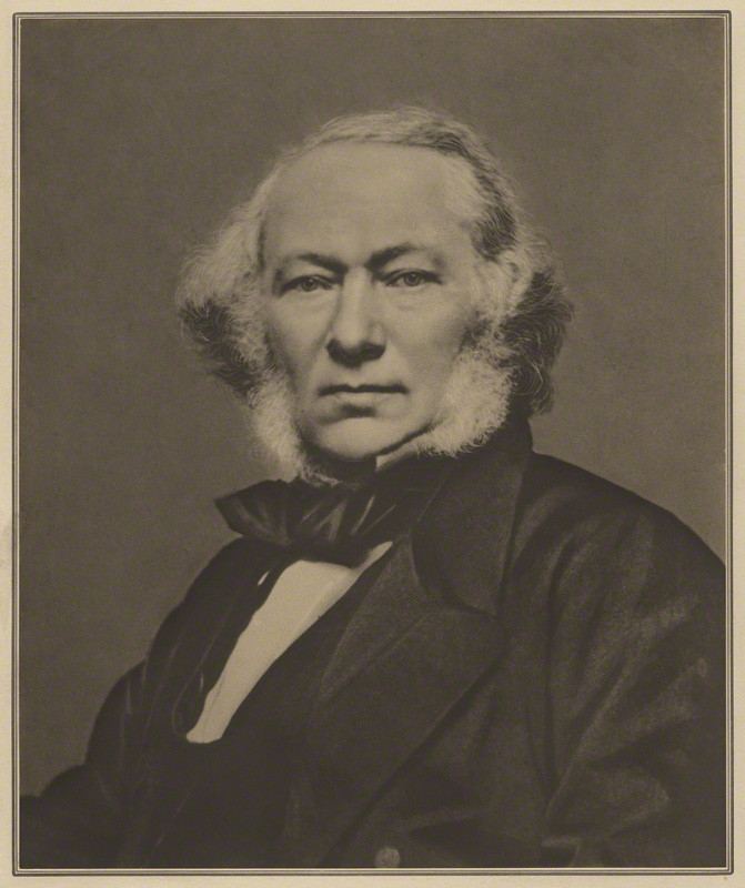 Photograph of Richard Cobden. Chlorobromide print on cream card mount. 11 in. x 9 1/4 in. (280 mm x 234 mm) image size.